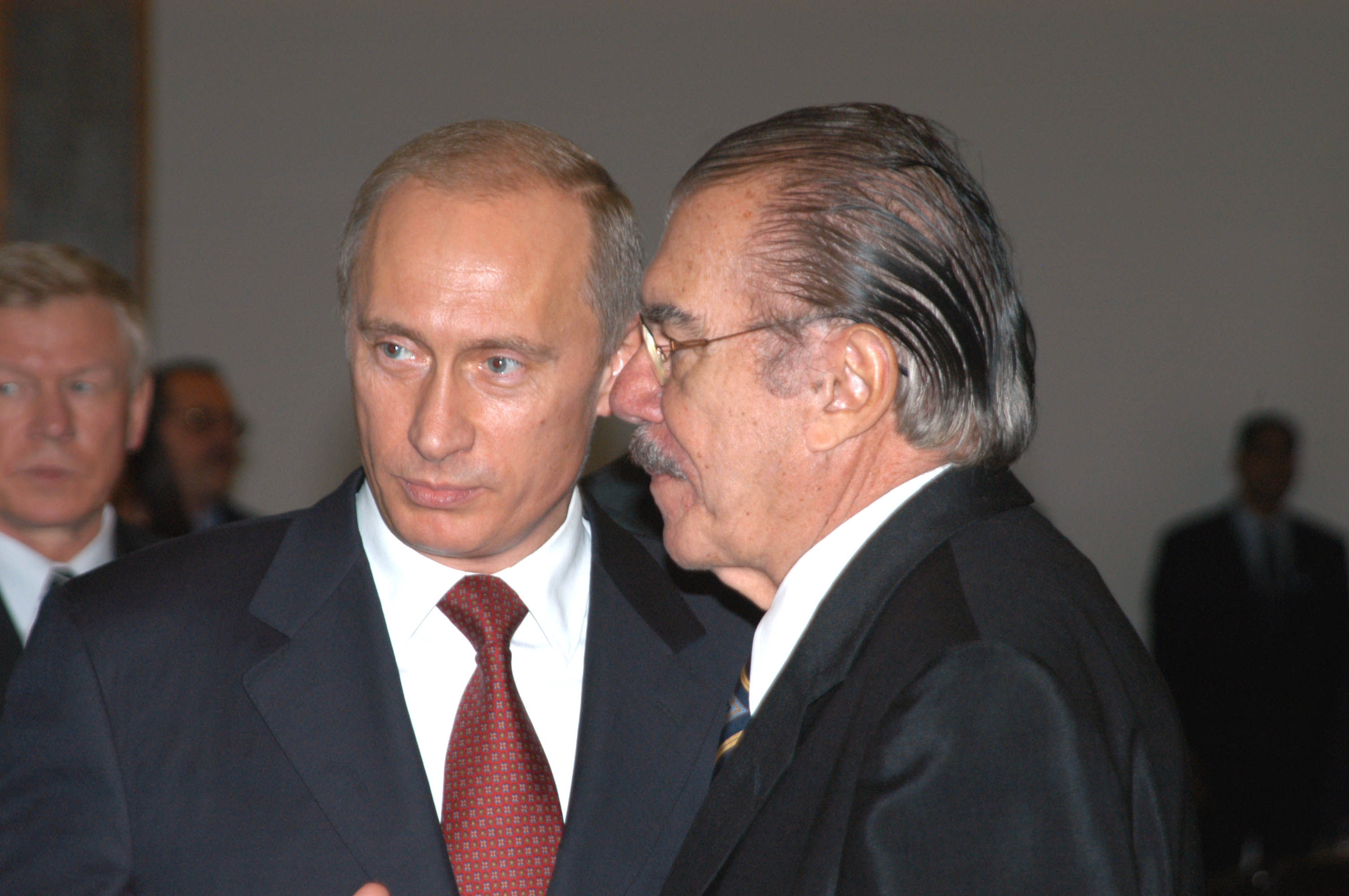 Vladimir Putin, Presidente da rússia, Senador José Sarney, Arquivo Antonio Carlos Rosset Filho